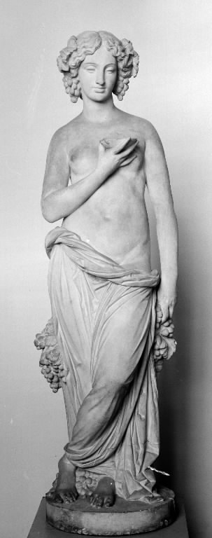 Nicolai Dajon (1748-1823), Hoesten. Staaende, halvt draperet kvinde med en skaal i haanden og druer og vinloev i haaret, 1780s